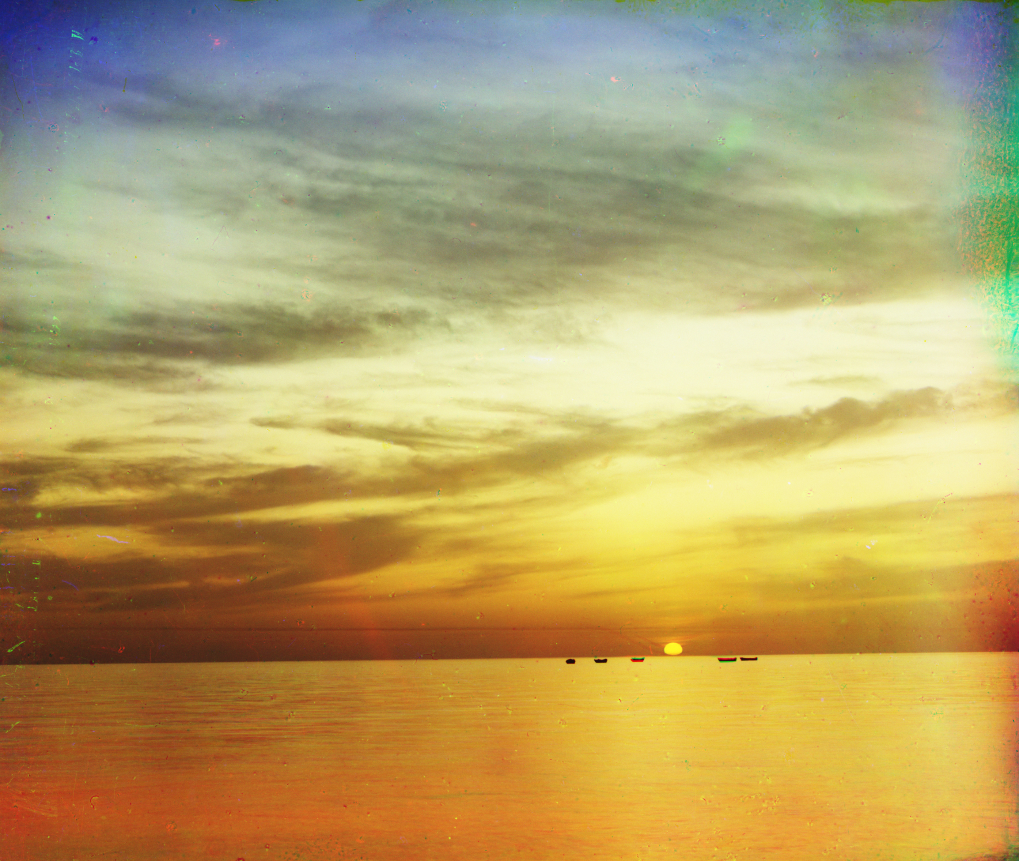 View of the Black Sea near Gagra Georgia, during sunset.